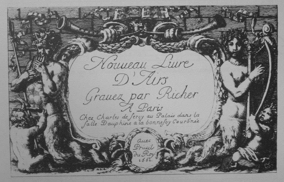 Title page of Bacilly's Nouveau livre d'airs (Paris, 1662)